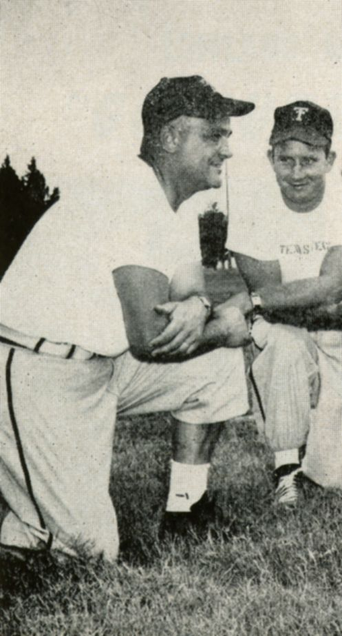 College football Coach DeWitt Weaver (left) in 1955. He is speaking to Bud Sherrod (right) and other coaching staff members (cropped from photo).